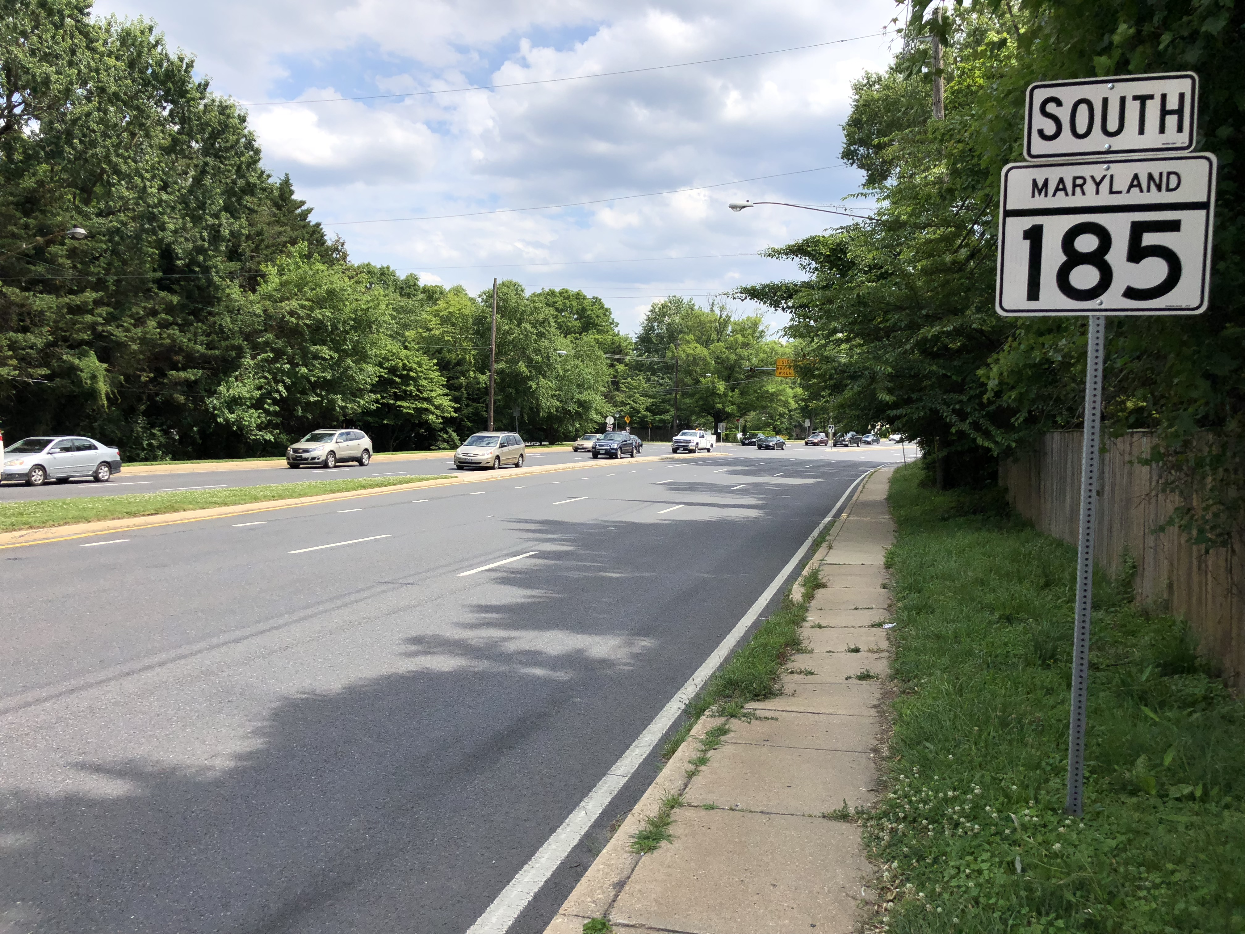 View south along Maryland State Route 185 (Connecticut Avenue) just south of Warner Street in Kensington, Montgomery County, Maryland